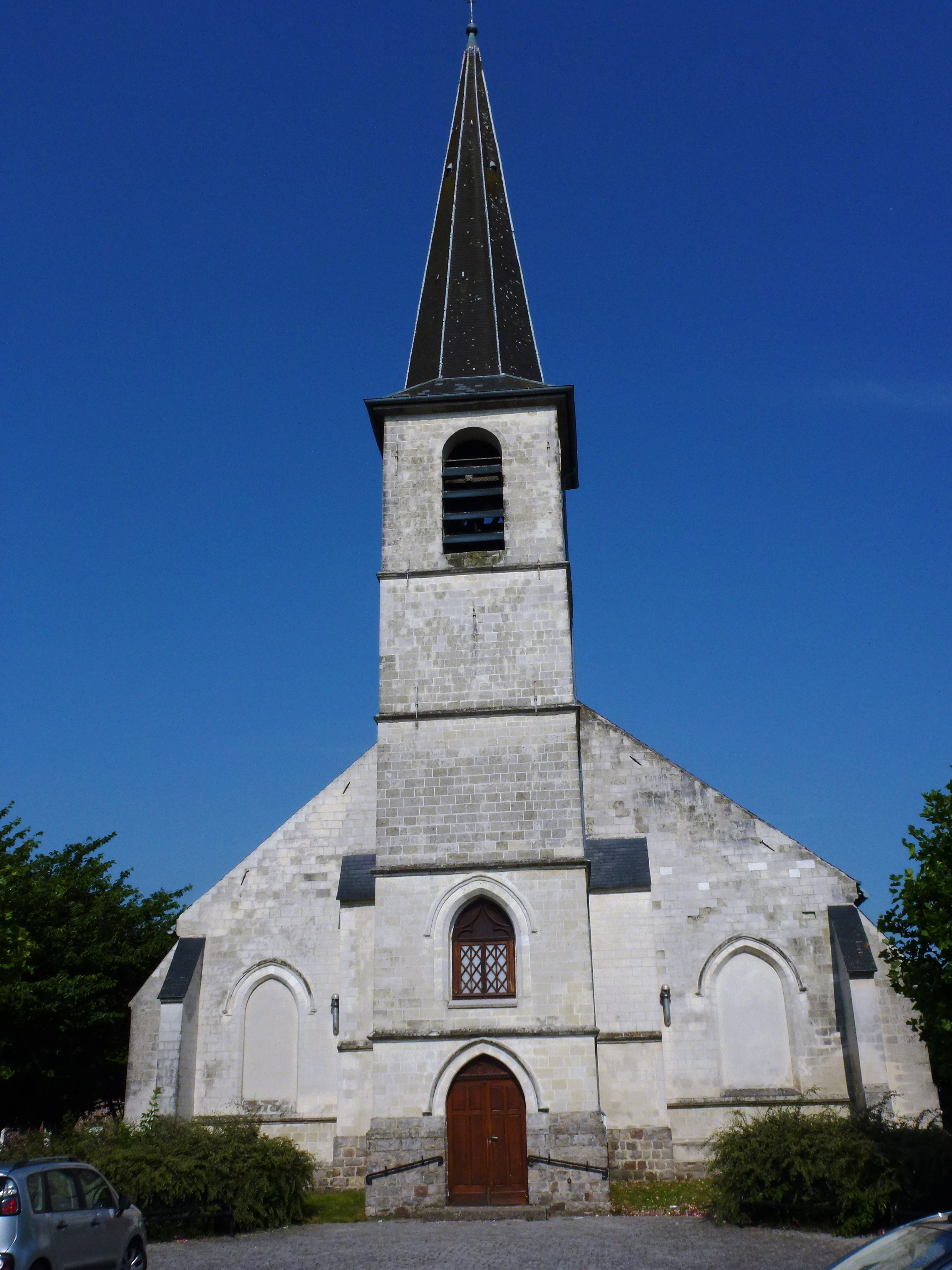 Aubry-du-Hainaut (Nord, Fr) église